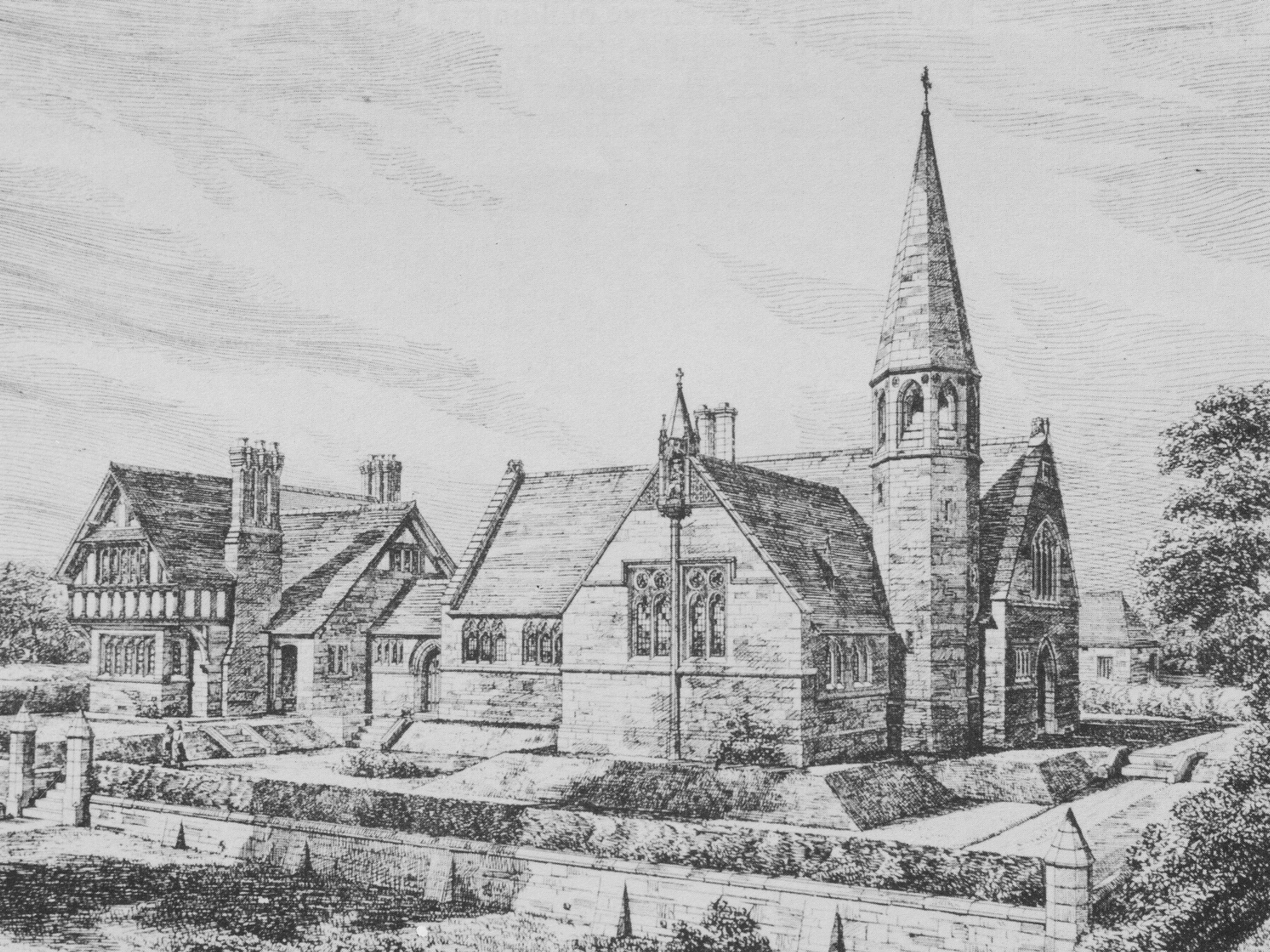 Drawing of the school and schoolmaster's house at Eccleston, Cheshire, England, by Douglas' assistant and partner. Scanned and enhanced by me.